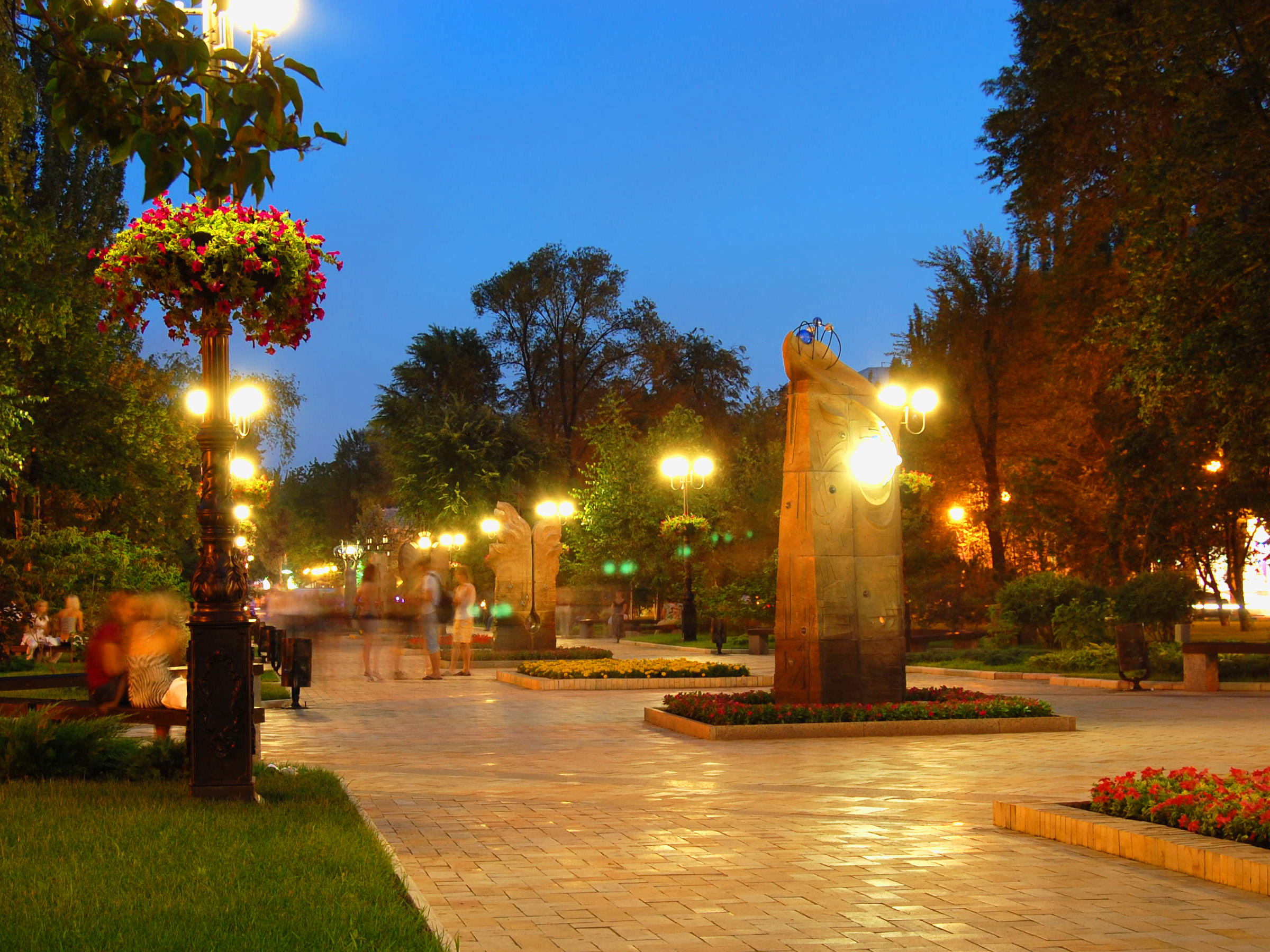 A vista in the centre of Donetsk A pedestrian boulvard with fountains and monuments